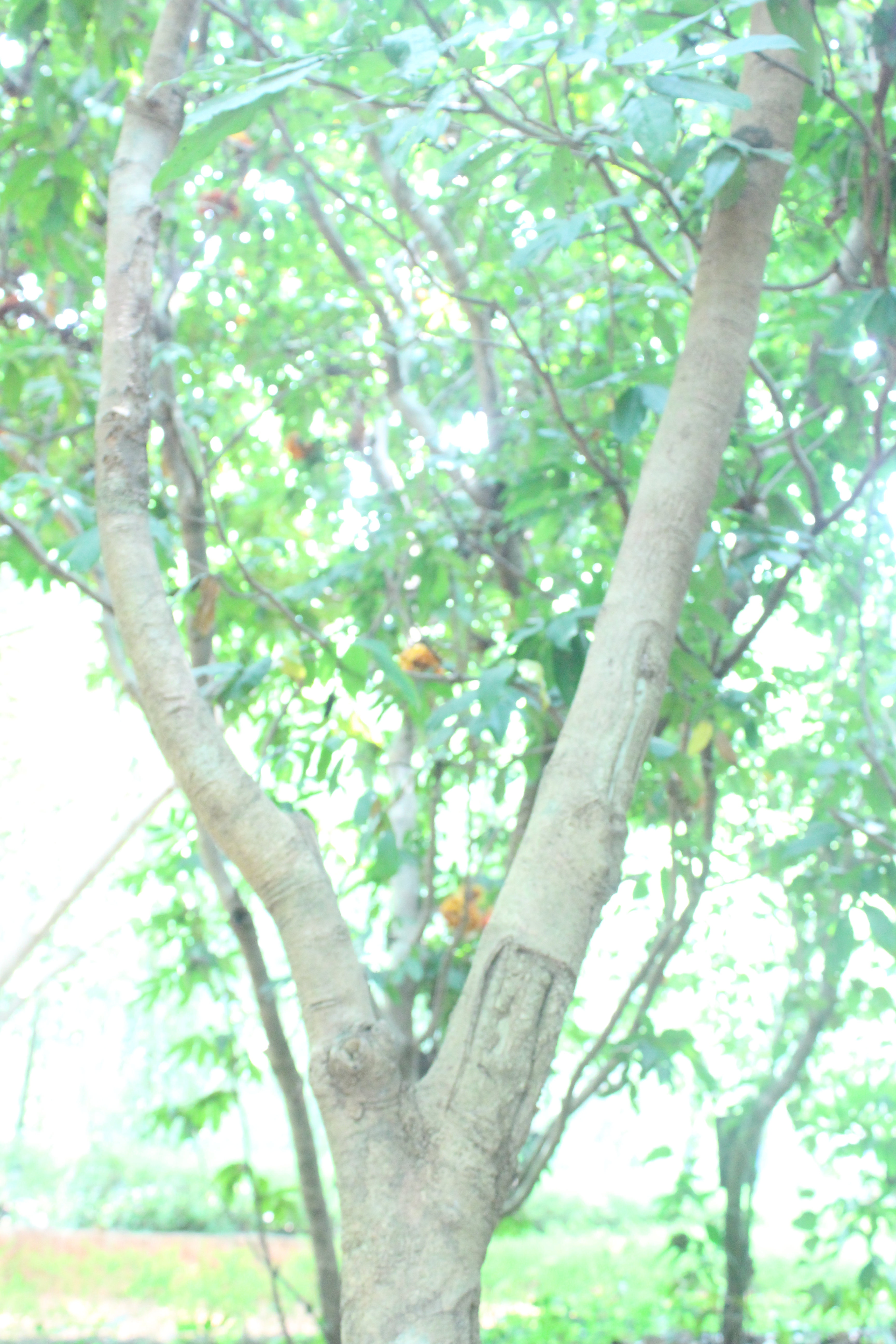 holarrhena-antidysenterica ಕನ್ನಡ: ಕೋಡಸಿಗ